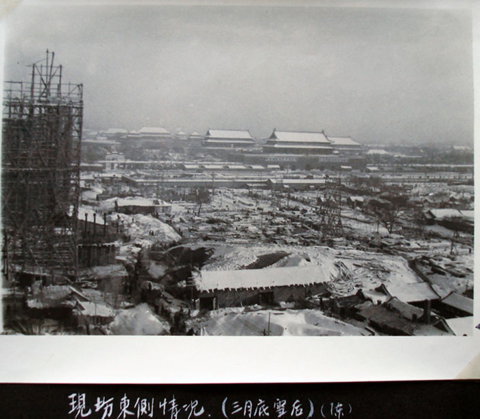 Great Hall of the People under construction